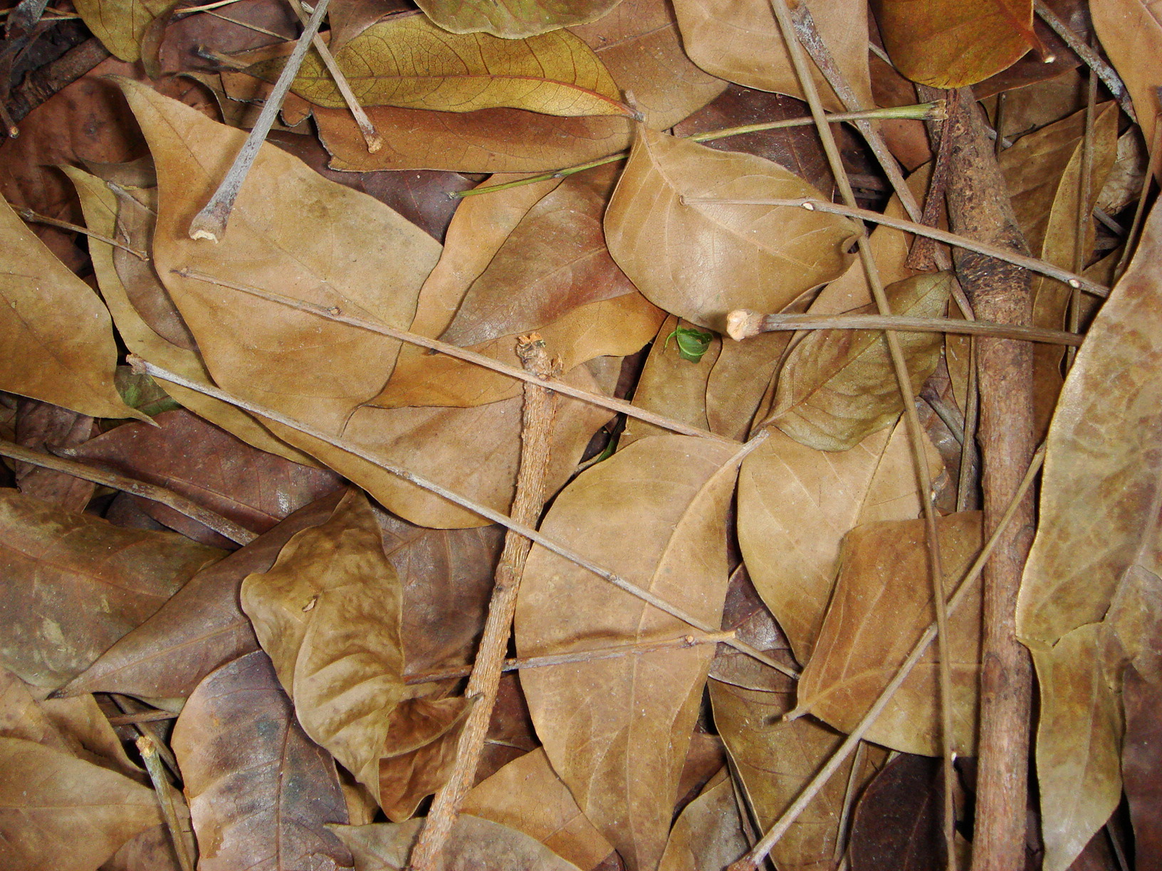 Taken by Yuyudevil on August 11 2006.